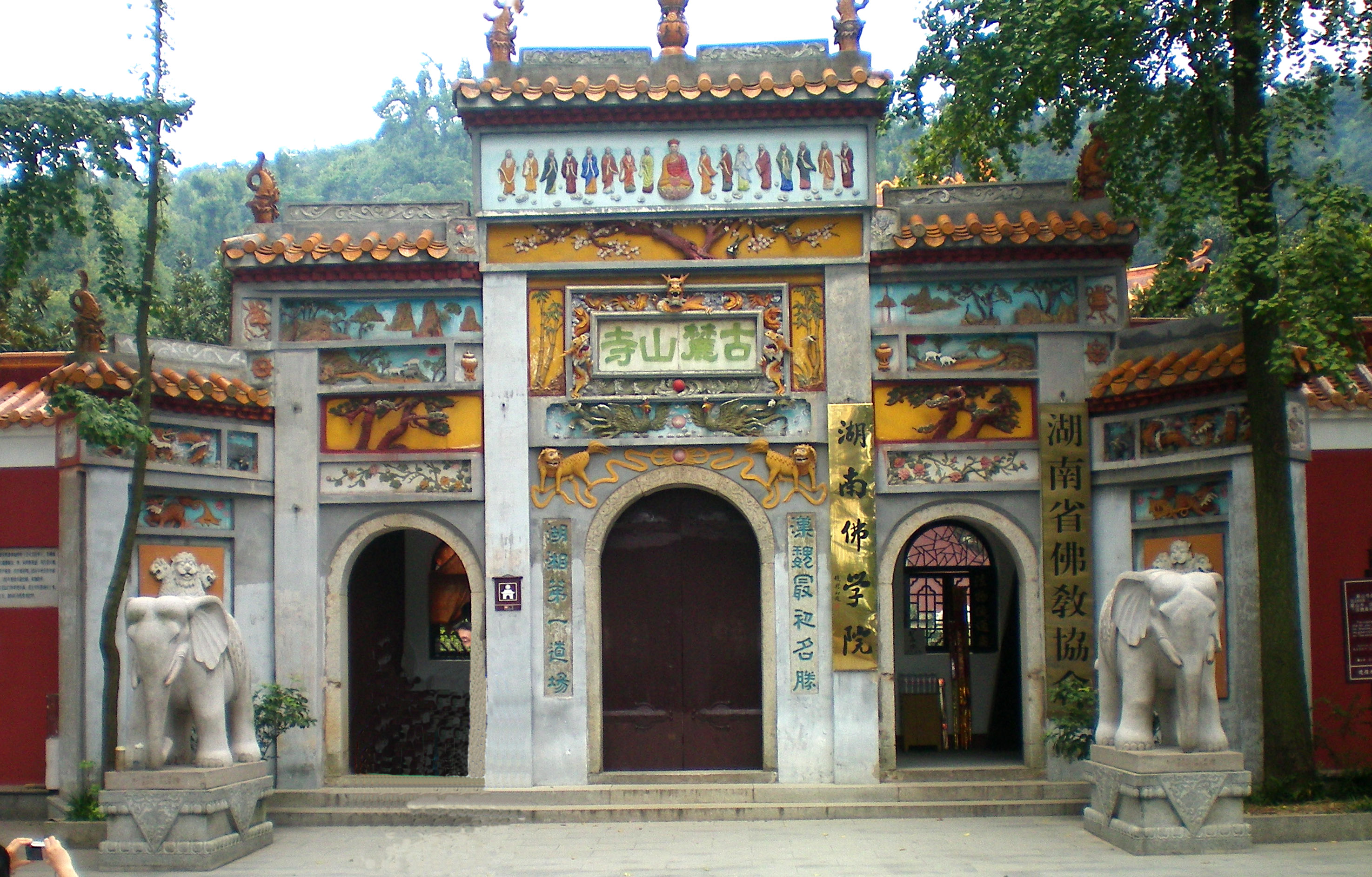 The shanmen at Lushan Temple, in Changsha, Huna, China